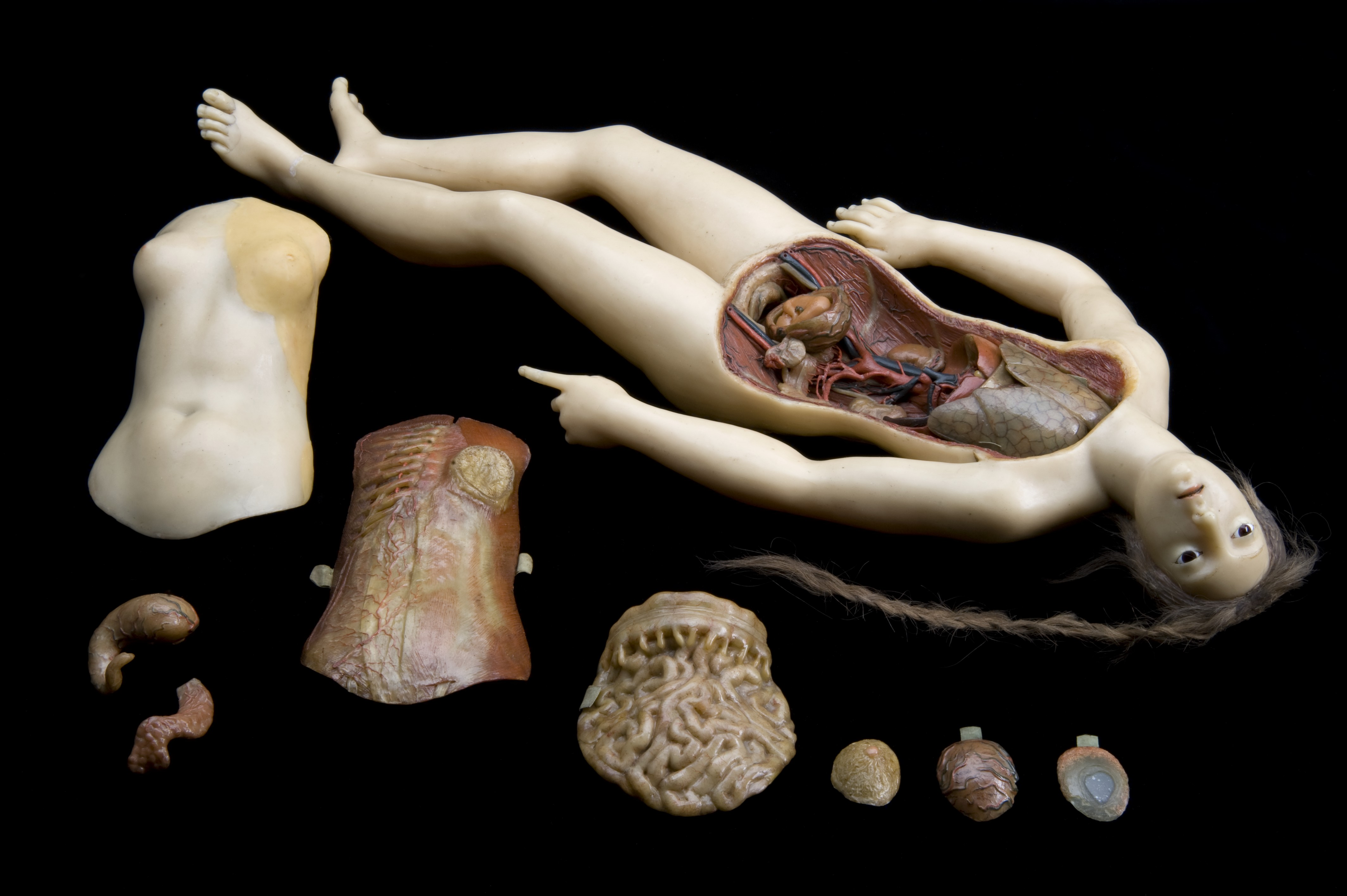 What is odd about this model? It could be described in many ways - beautiful, exposed, sexually alluring. Is that consistent with its role as an anatomical teaching model? Should it have these qualities, or other more scientific ones? Wax anatomical models of this period had different uses for different audiences. In the European anatomical tradition, the standard or normative body was always male. Female bodies were studied in terms of how they differed. In practice this meant a focus on their reproductive capacities - most often they were pregnant, with a foetus as one of the removable pieces. But does this explain the model's passive, sexualised pose? Female wax anatomical models were often referred to as "Venuses", after the goddess of love and beauty. Reclining on silk or velvet cushions, in positions copied from works of art, they often had flowing hair and jewellery, which added nothing to their anatomical use. They served to show not just physical differences but also gender differences, as perceived in European culture at that time. A third way of understanding the model is to see the exposed body layers as a symbol of nature "unveiling herself" to the medical gaze. Looking deep into the body was considered to be the route to knowledge. In just one model, ideas about art, anatomy, gender, flesh and knowledge were all conveyed. So it is not surprising if you have mixed reactions to the model - it was made that way. maker: Susini, Clemente Place made: Florence, Firenze, Tuscany, Italy Public Programmes Keywords: Gender Identity; Woman; gender; anatomical figure; Dissection; Anatomy; Female; Wax; Pregnancy; Organs